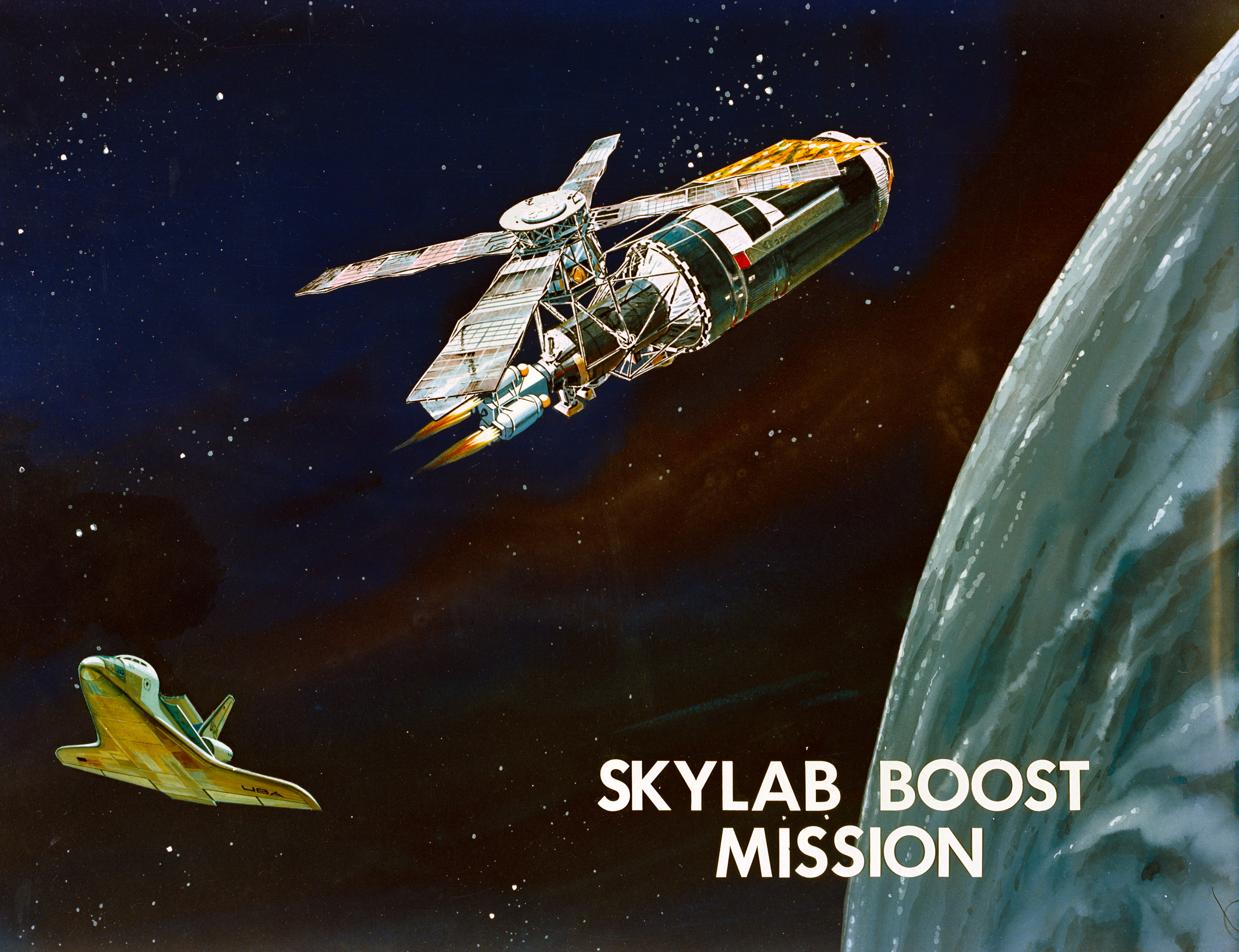 A drawing of a Teleoperator Retrieval System (TRS) which is being developed by NASA for use begining in late 1979. This spacecraft is illustrated being used to re-boost the Skylab space station to a higher orbit (23630); A labeled drawing of a TRS which is being developed by NASA (23631).